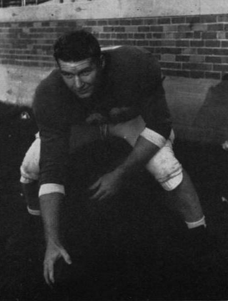 Pete Wismann